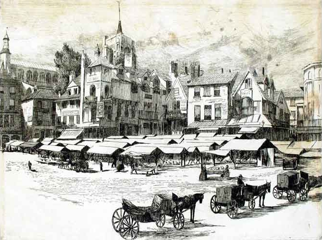 Market Taverns, Norwich, Edwin Edwards (1823-1879). The source gives the date as 1880, but Edwards died in 1879 so this cannot be correct.